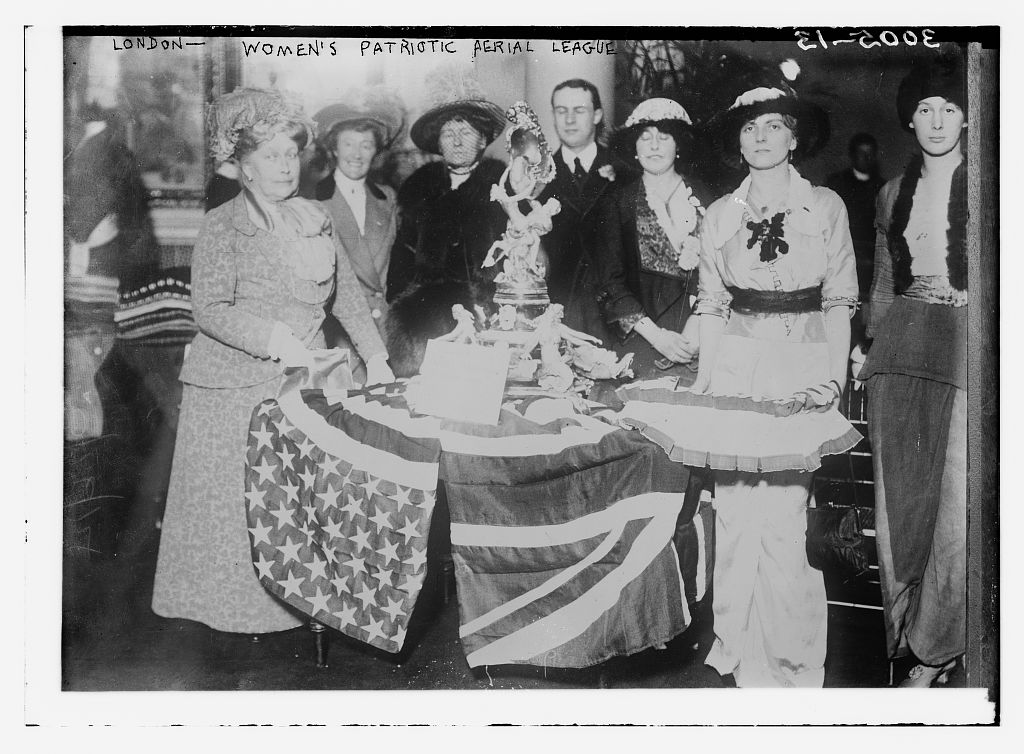 Photograph: glass negative; 5 x 7 inches or smaller.